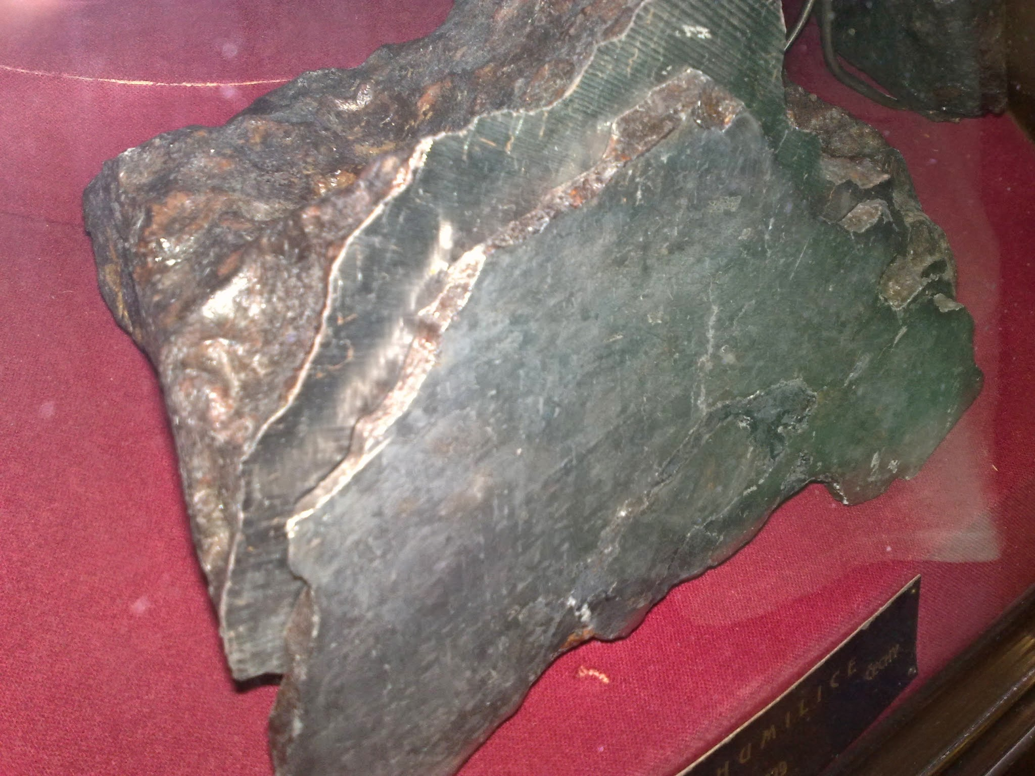 Bohumilitz meteorite, iron IAB-MG